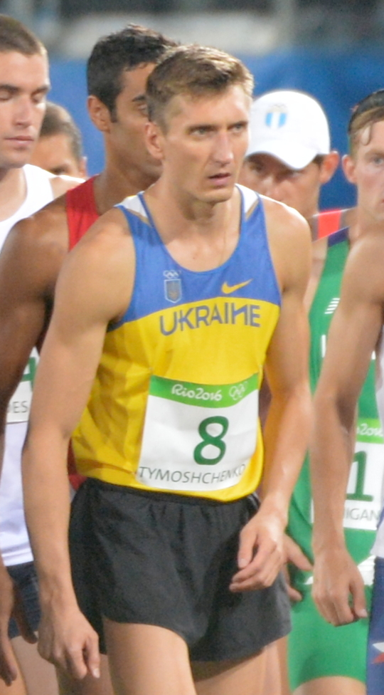 Men's Modern Pentathlon event Aug. 20 at the Rio Olympic Games in Rio de Janeiro. U.S. Army photo by Tim Hipps, IMCOM Public Affairs #SoldierOlympians #ArmyOlympians #ArmyTeam #TeamUSA #RoadToRio #ArmyStrong #GoArmy #WCAP #ArmyWCAP